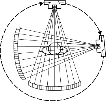 Computed tomography third generation